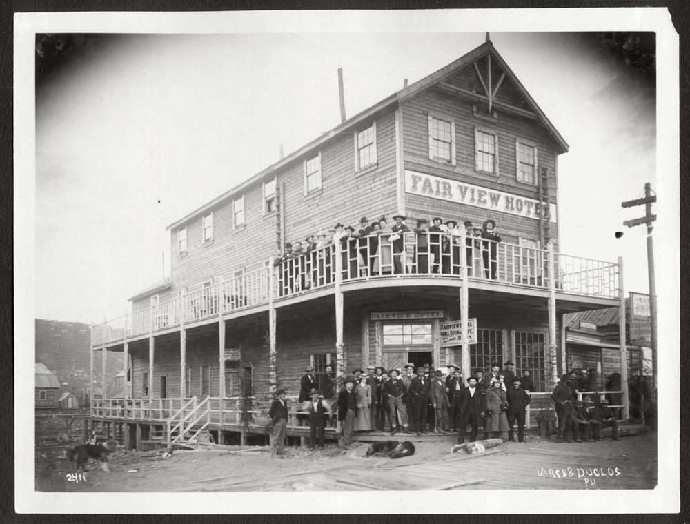 Belinda Mulrooneys Fair View Hotel, Dawson, um 1899